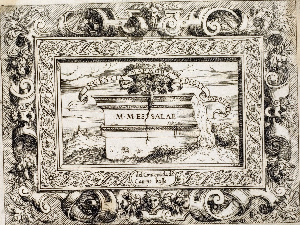 Imprese (Symbol with device) of count Nicola da Campobasso. From "Imprese di diversi principi, duchi, signori e d'altri personaggi et huomi illustri" by Giovanni Battista Pittoni, Venice 1602.